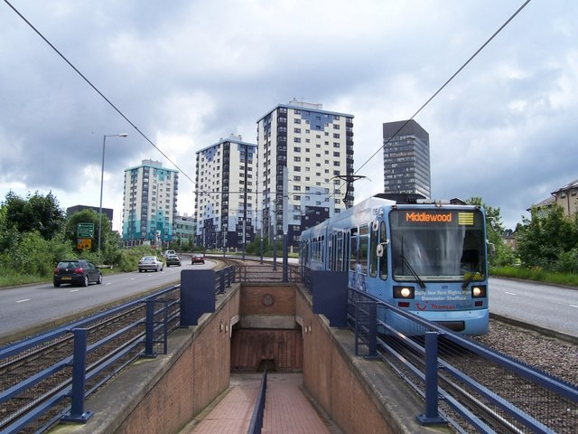 Netherthorpe Road and Mitchell Street Netherthorpe Road looking uphill towards Mitchell Street from Netherthorpe tram stop. The University of Sheffield Arts Tower is visible on the horizon to the right.